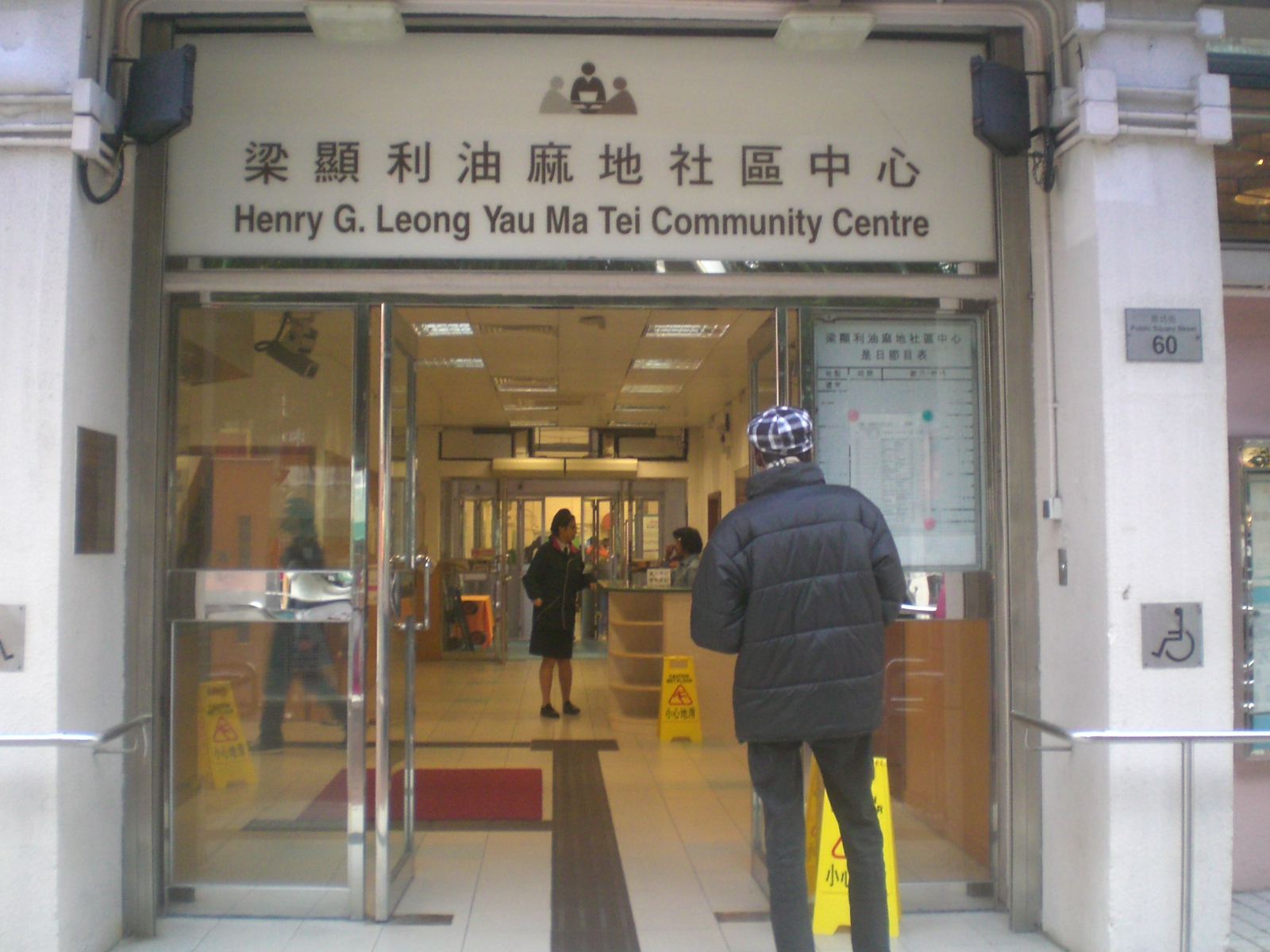 油麻地民政事務總署梁顯利社區服務中心